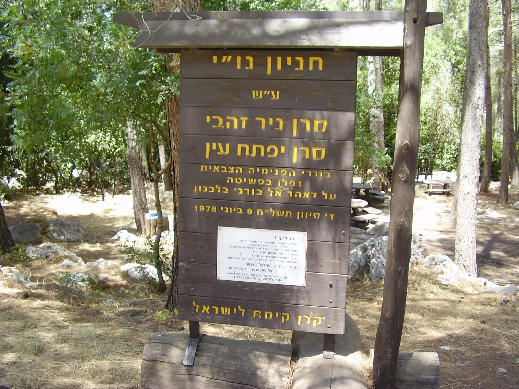 the capitans woods in upper galilee